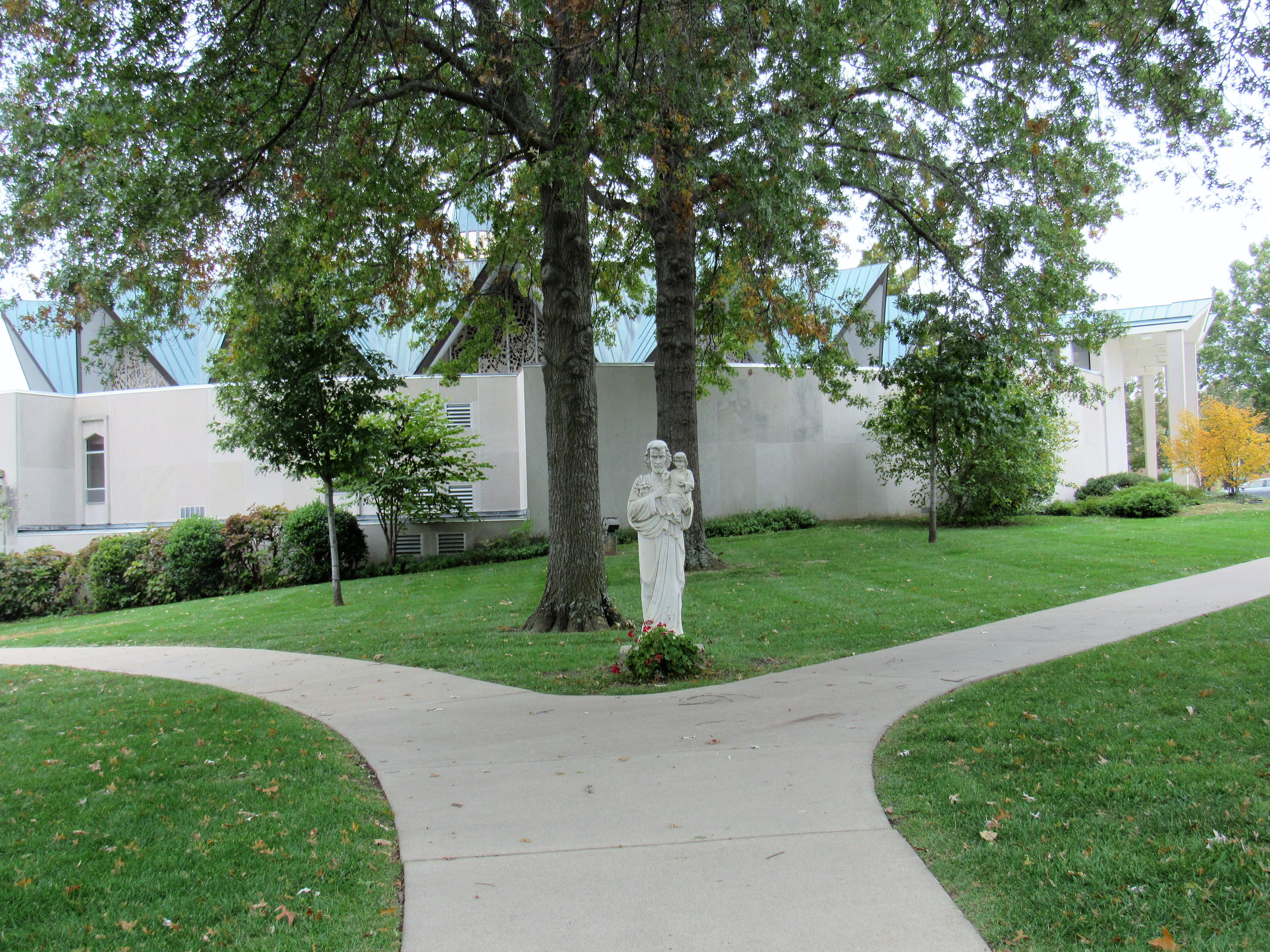 Cathedral of St. Joseph in Jefferson City, Missouri.